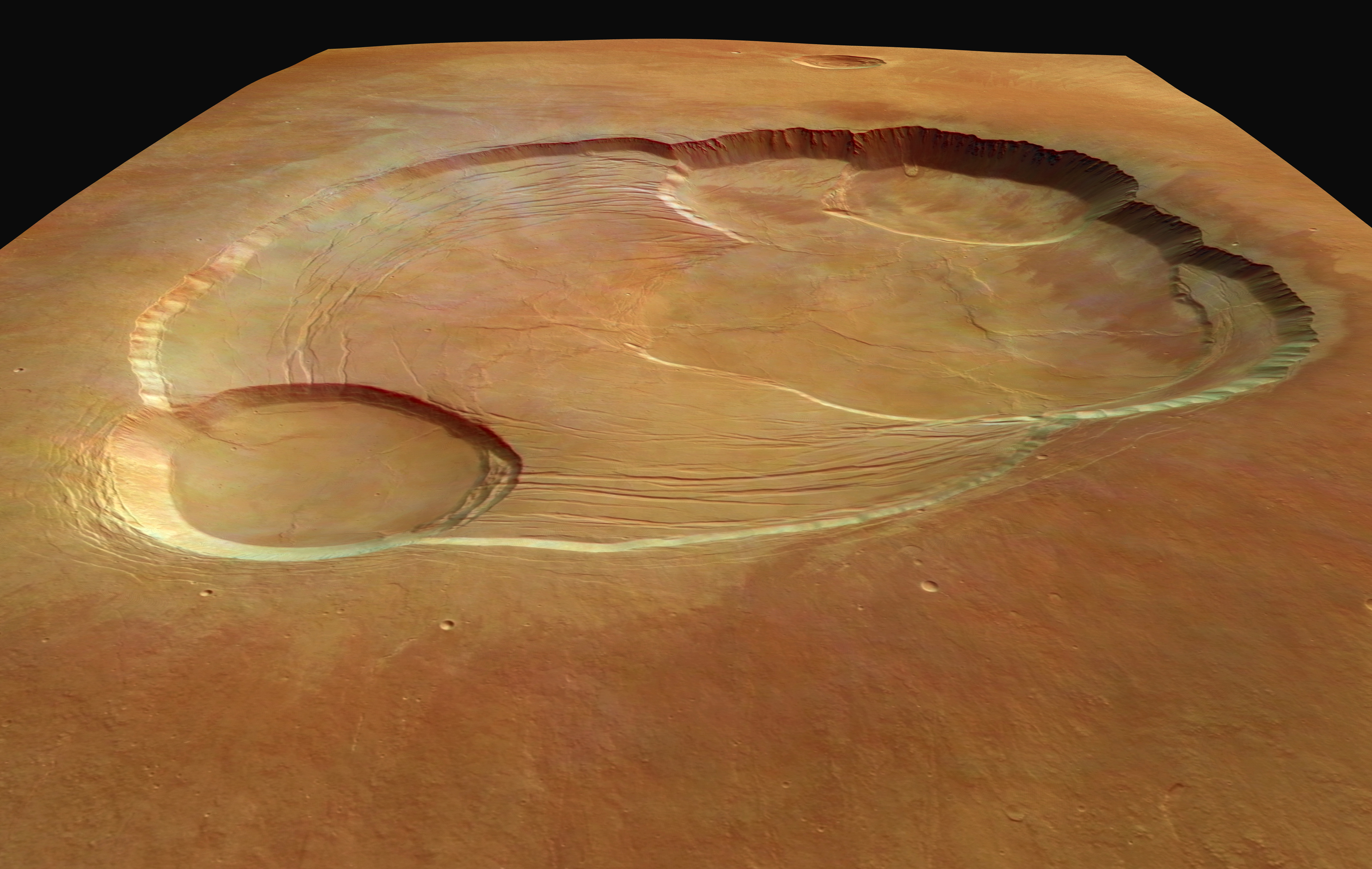 This perspective view shows the complex caldera (volcanic crater) of the Olympus Mons volcano on Mars. The image has been calculated from the digital elevation model derived from the stereo channels and combined with the nadir- and colour- channels of the High Resolution Stereo Camera (HRSC) on ESA’s Mars Express. The data has been retrieved from a height of 273 km in orbit 37 on 21 January 2004. The view is centred at 18.3°N and 227°E. The image is 102 km across and has a resolution of 12 m per pixel. The vertical exaggeration is 1.8. South is up.